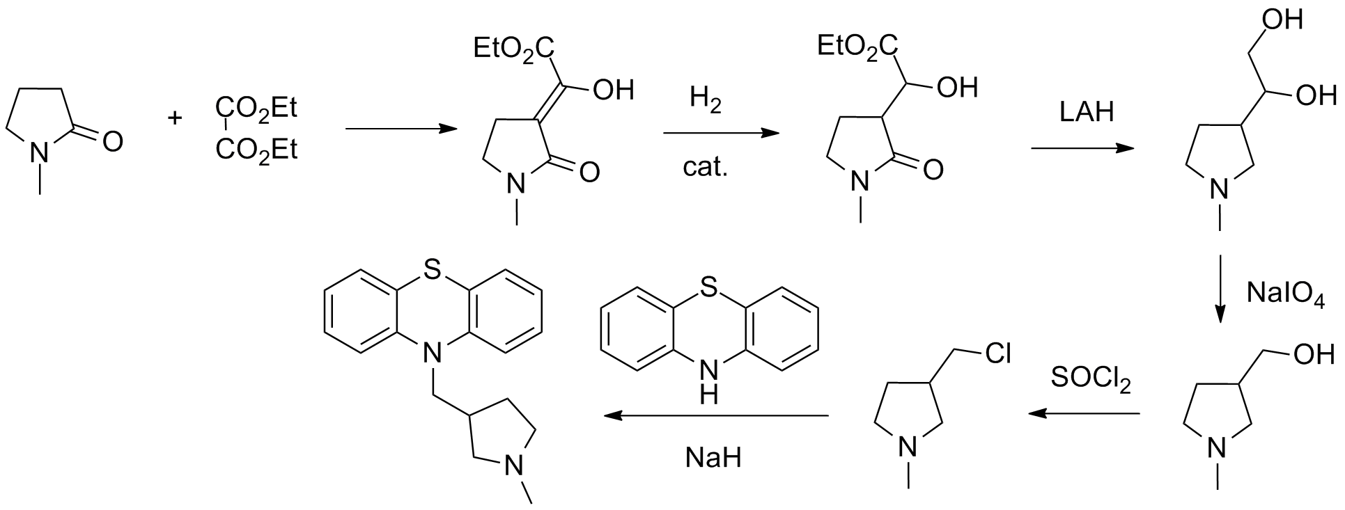 L. W. Marsch and R. Peterson, Arzneimittel Forsch., 9, 715 (1959). R. F. Feldkamp and Y. H. Wu, U. S. Patent 2,945,855 (1960).